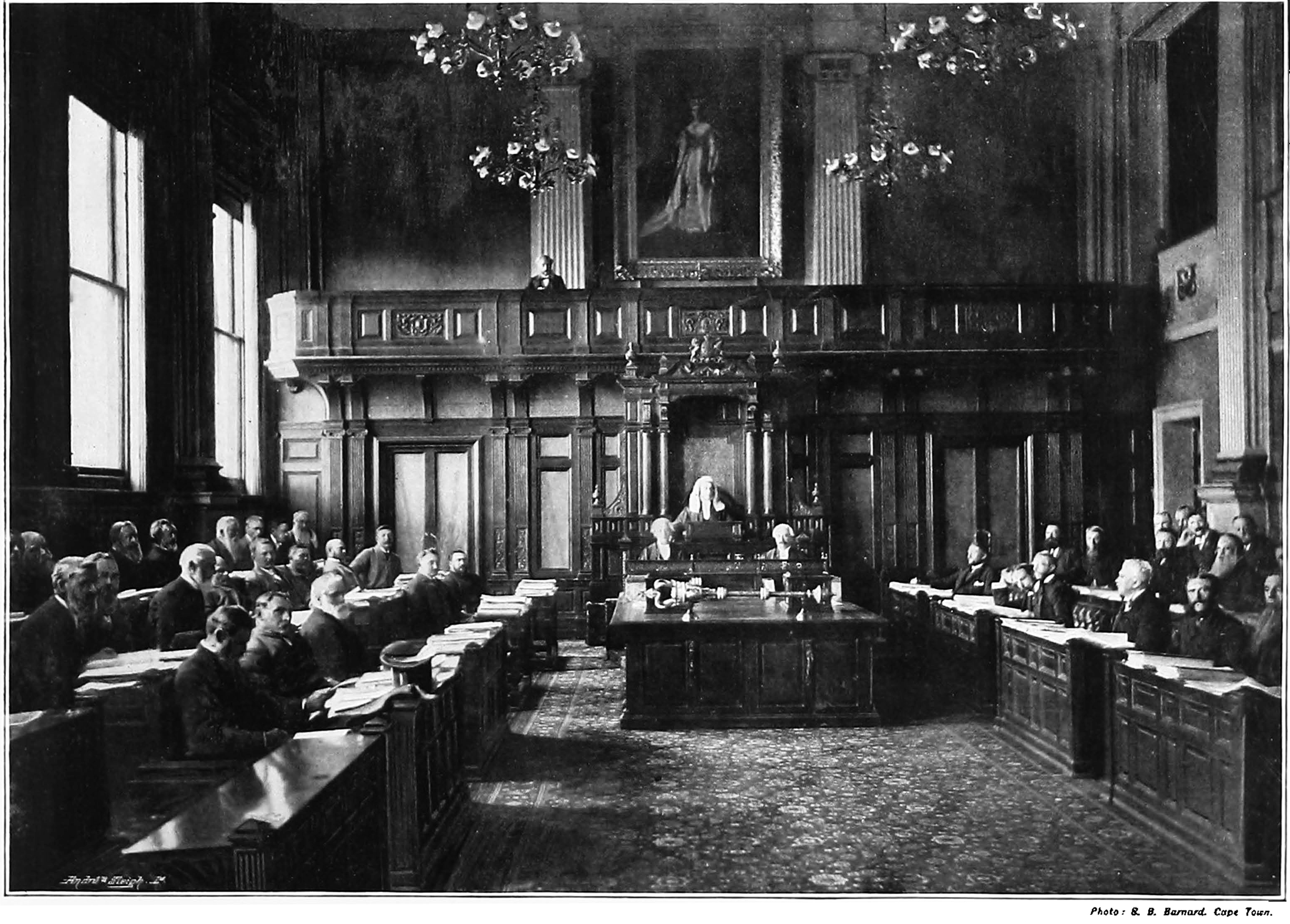 "THE LEGISLATIVE ASSEMBLY OF CAPE COLONY IN SESSION. This picture represents a sitting of the House of Assembly at Cape Town. The Right Hon. Cecil Rhodes, who was at that time Premier, occupies the place of honour on the right of the Speaker. The Speaker himself in his full-bottomed wig, the Clerks at the table, and the mace lying in front of them, all combine to tell their story of the British origin of this important Assembly. The portrait of her Majesty the Queen on the wall, and the Royal Arms over the Speaker's Chair, are emblems of the connection which the golden link of the Crown establishes between all parts of the British Empire. Members of the British House of Commons may well envy the comfortable scats and convenient desks with which the members of. the Cape Parliament are provided, and which contrast with the limited accommodation and inconvenient appliances of the Parliament at Westminster."